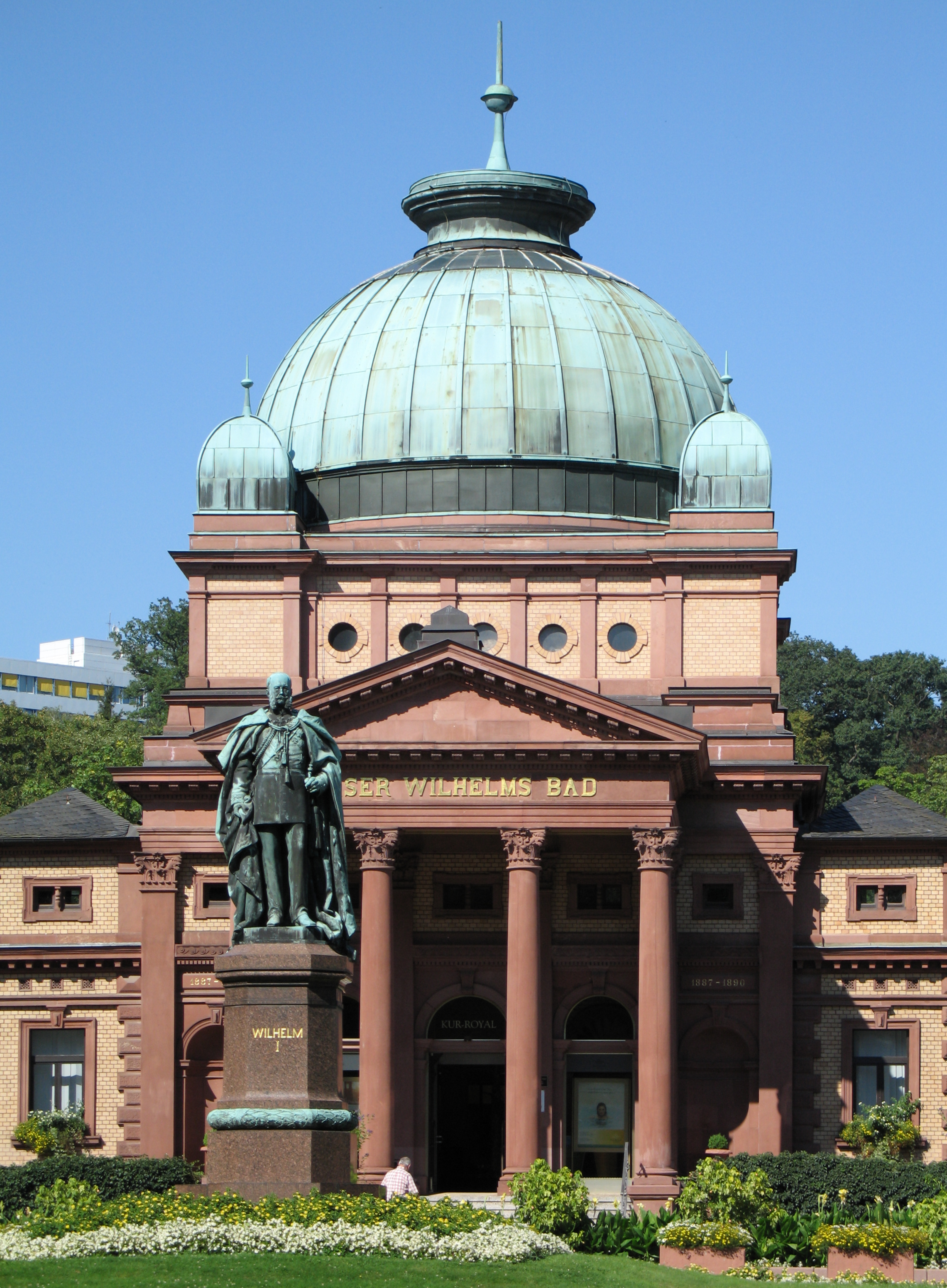 The entrance of the former royal spa "Kaiser-Wilhelms-Bad" with the statue of Emperor Wilhelm I. Bad Homburg vor der Höhe, Germany.